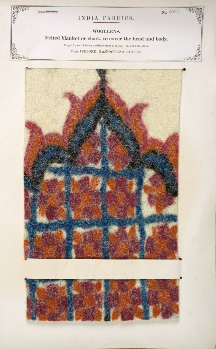 Page from The Textile Manufactures of India